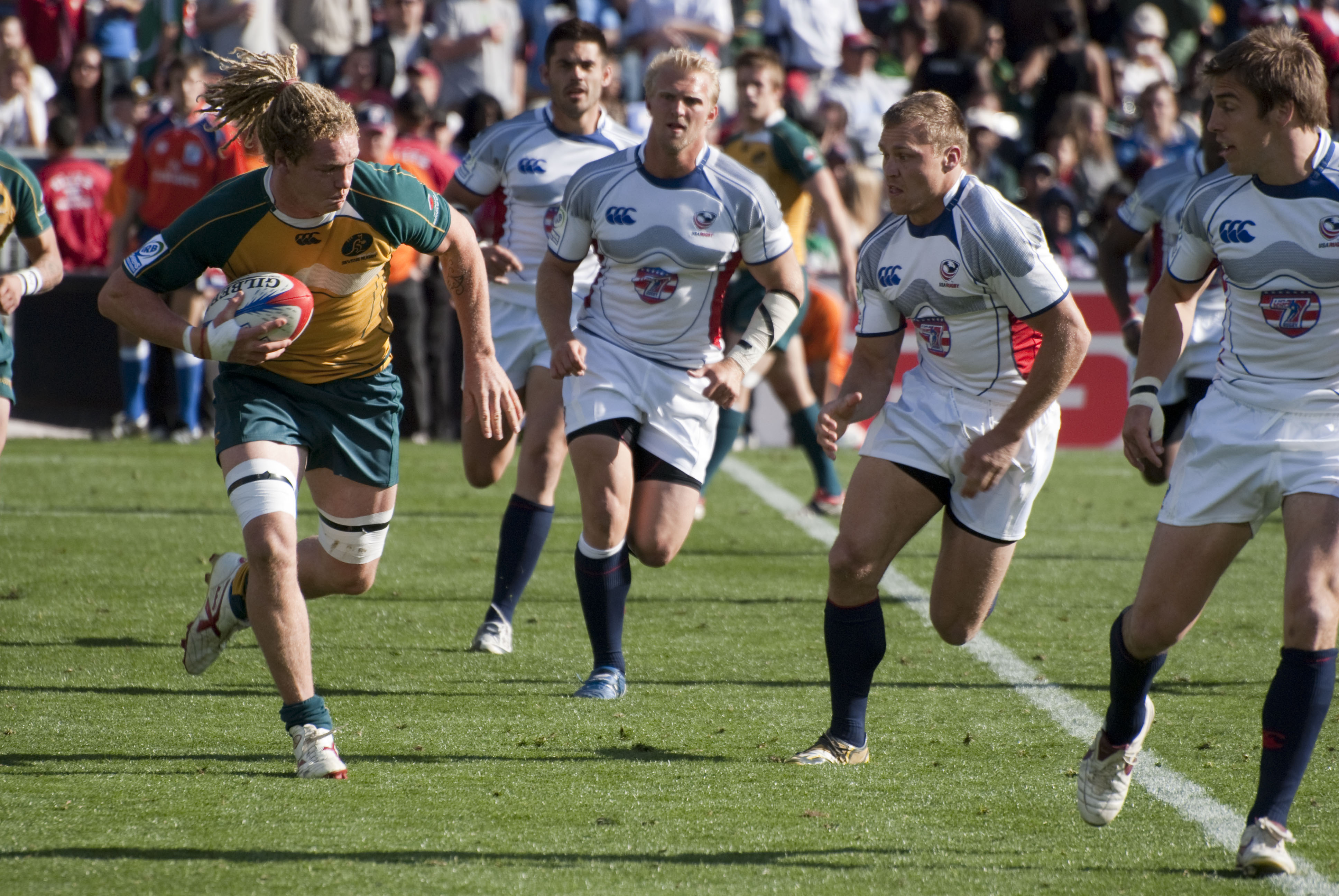 Canada and Australia competed against each other at the International Seven's Rugby tournament sponsored by the National Guard at Petco Park in San Diego, February 14, 2009. The event featured 16 international teams in 44 matches, and was the fourth round in the International Rugby Board (IRB) Sevens World Series. As an official sponsor of USA Rugby, the National Guard will have title sponsorships of several U.S. premier events.